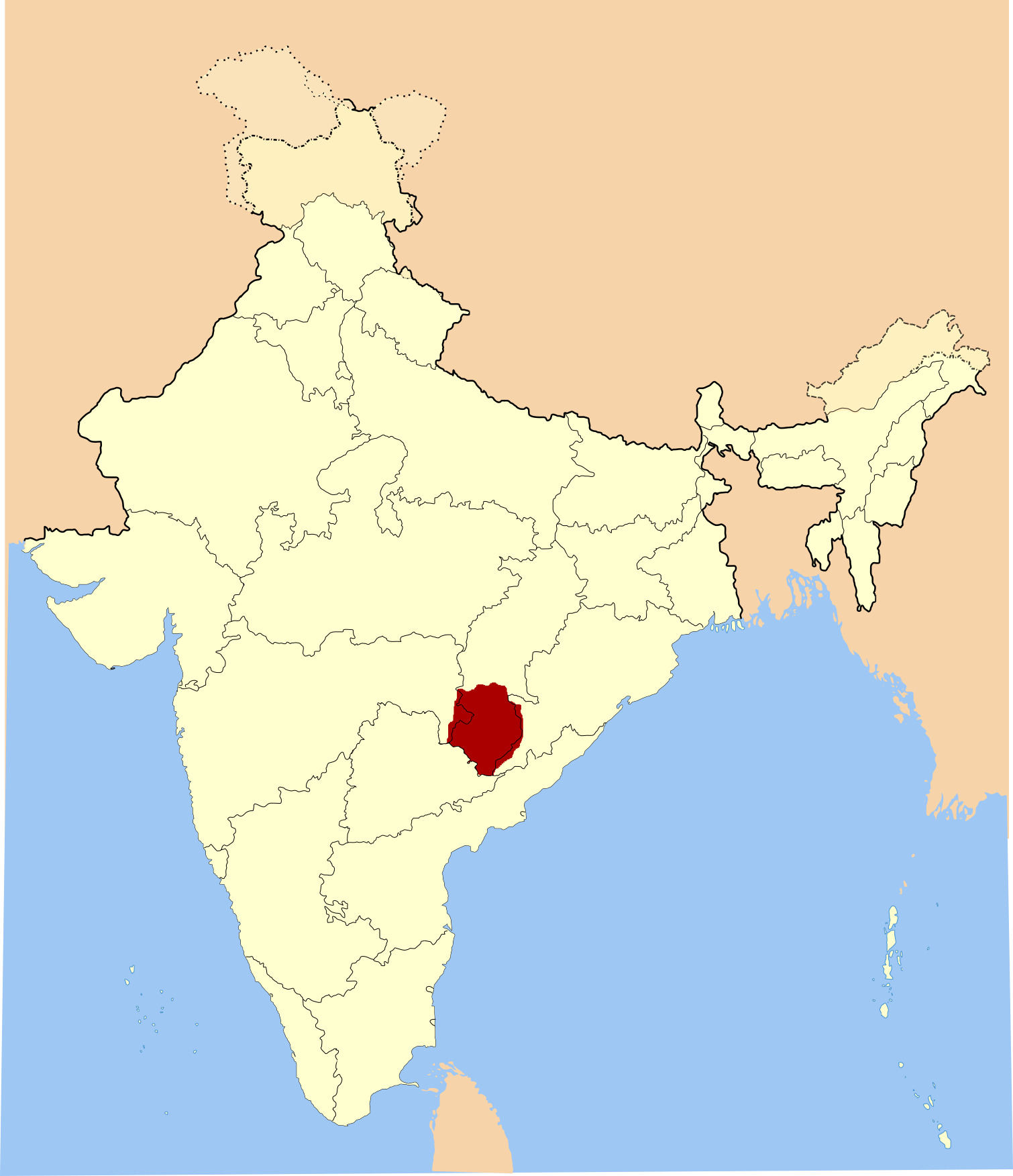 Map of Halbi speakers (Bastar)